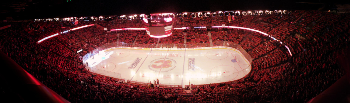 A panoramic view of the Pengrowth Saddledome in Calgary, featuring the "C of Red" immediately prior to the Calgary Flames' playoff game against the Chicago Blackhawks.